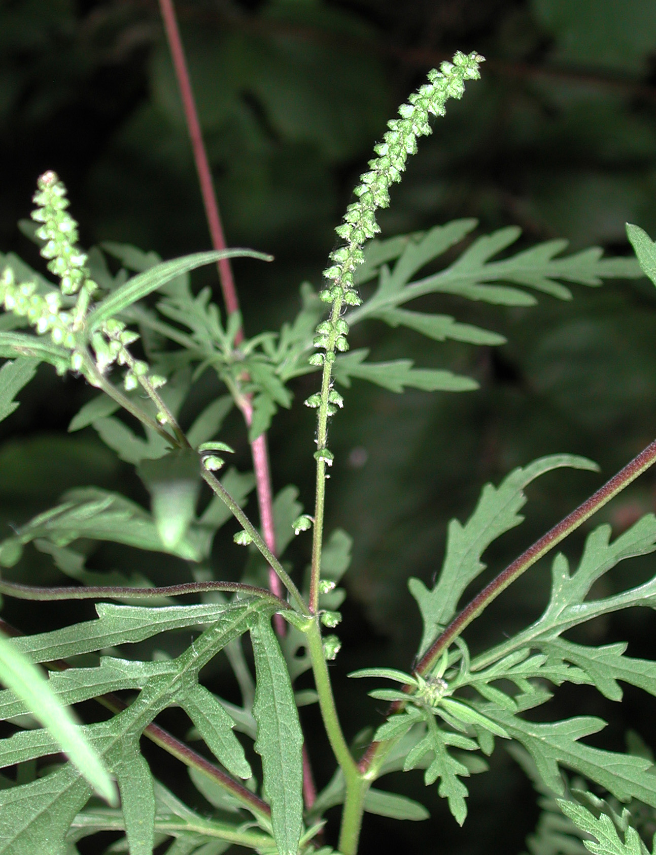 Detail of neophytic Ambrosia artemisiifolia in Hamburg, Germany.